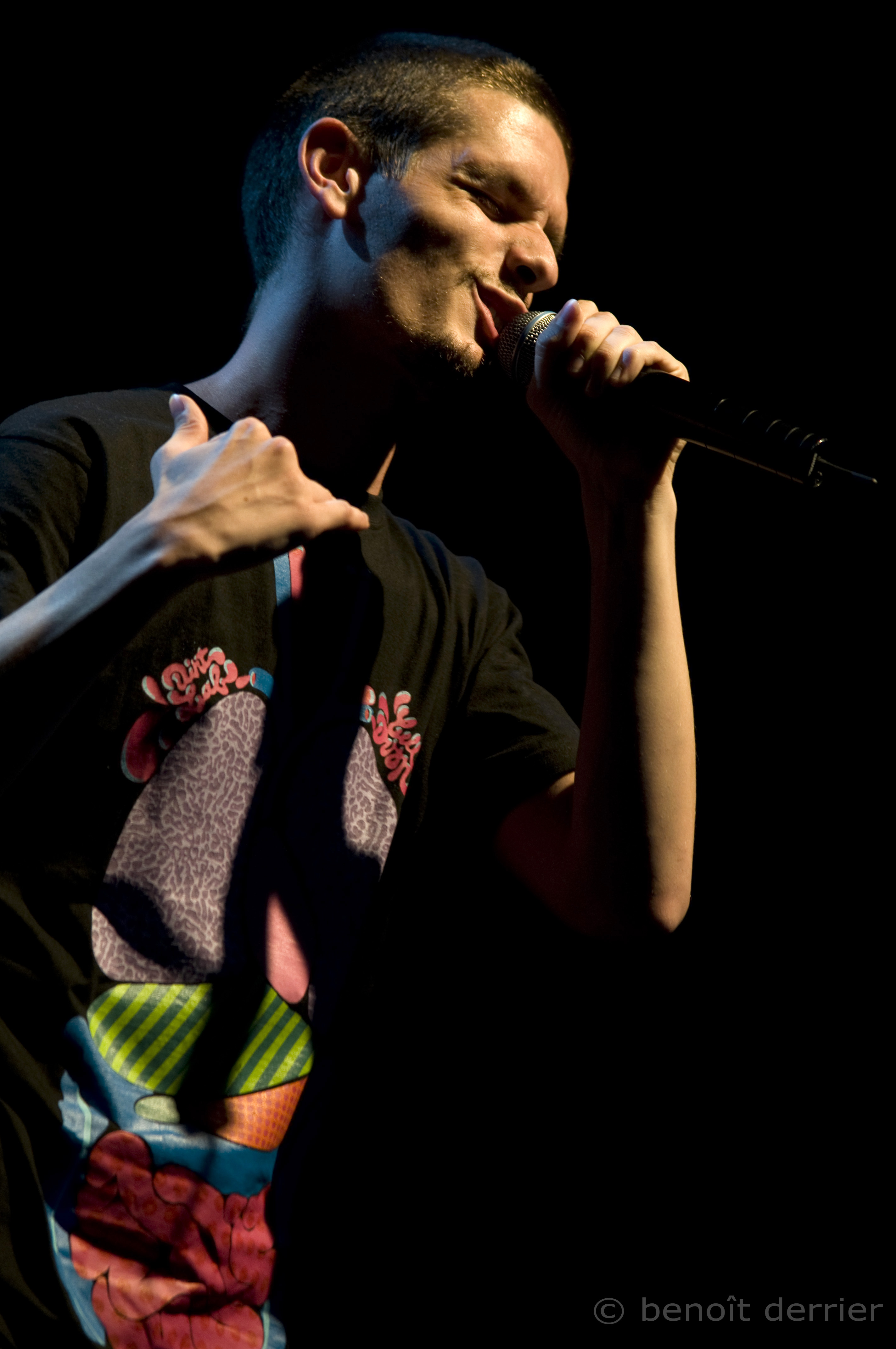 Hocus Pocus live at Aux Zarbs festival 2008 (Auxerre, France).